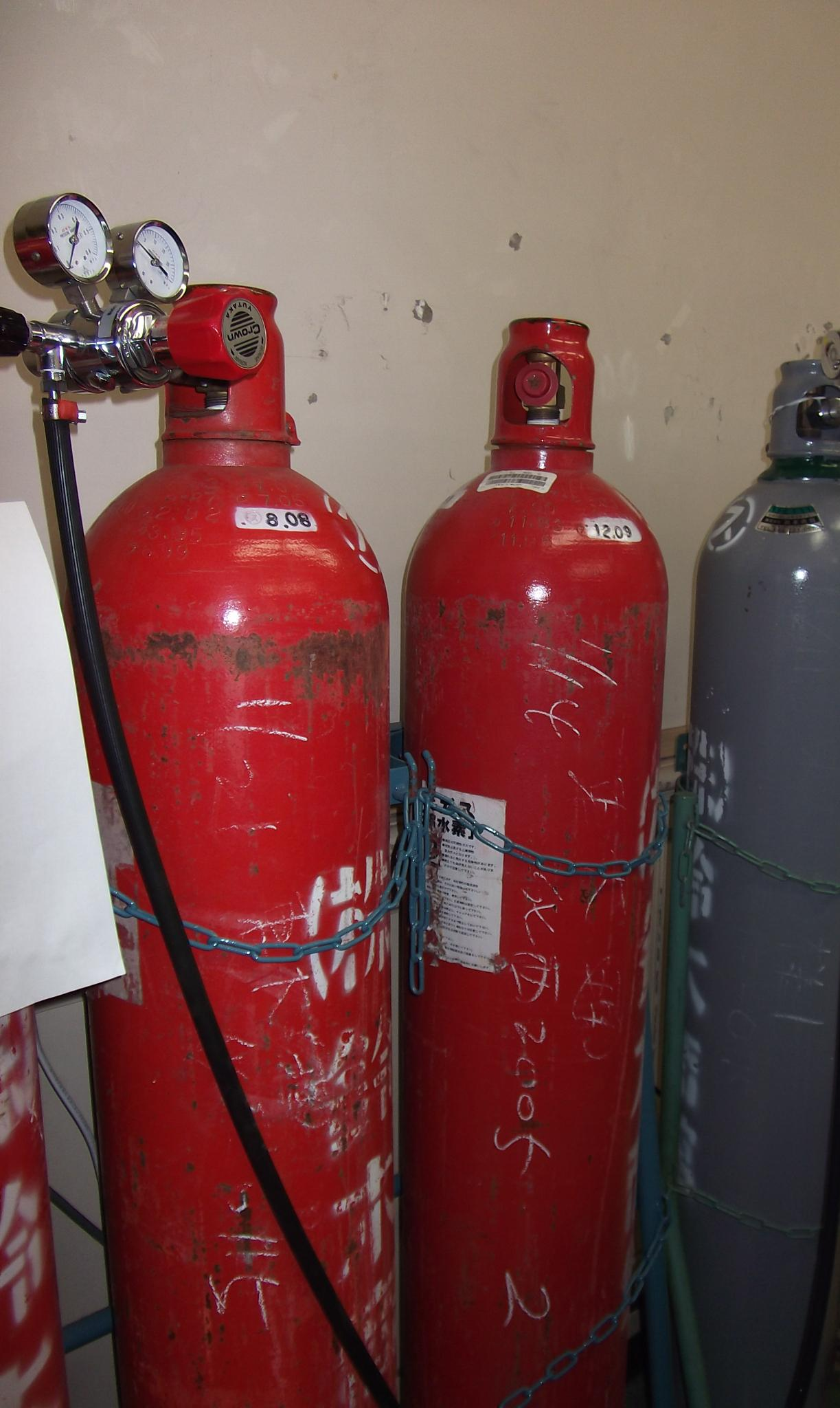 This photo is a picture of hydrogen cylinder in Japan, where gas cylinder of hydrogen is regulated to paint red.